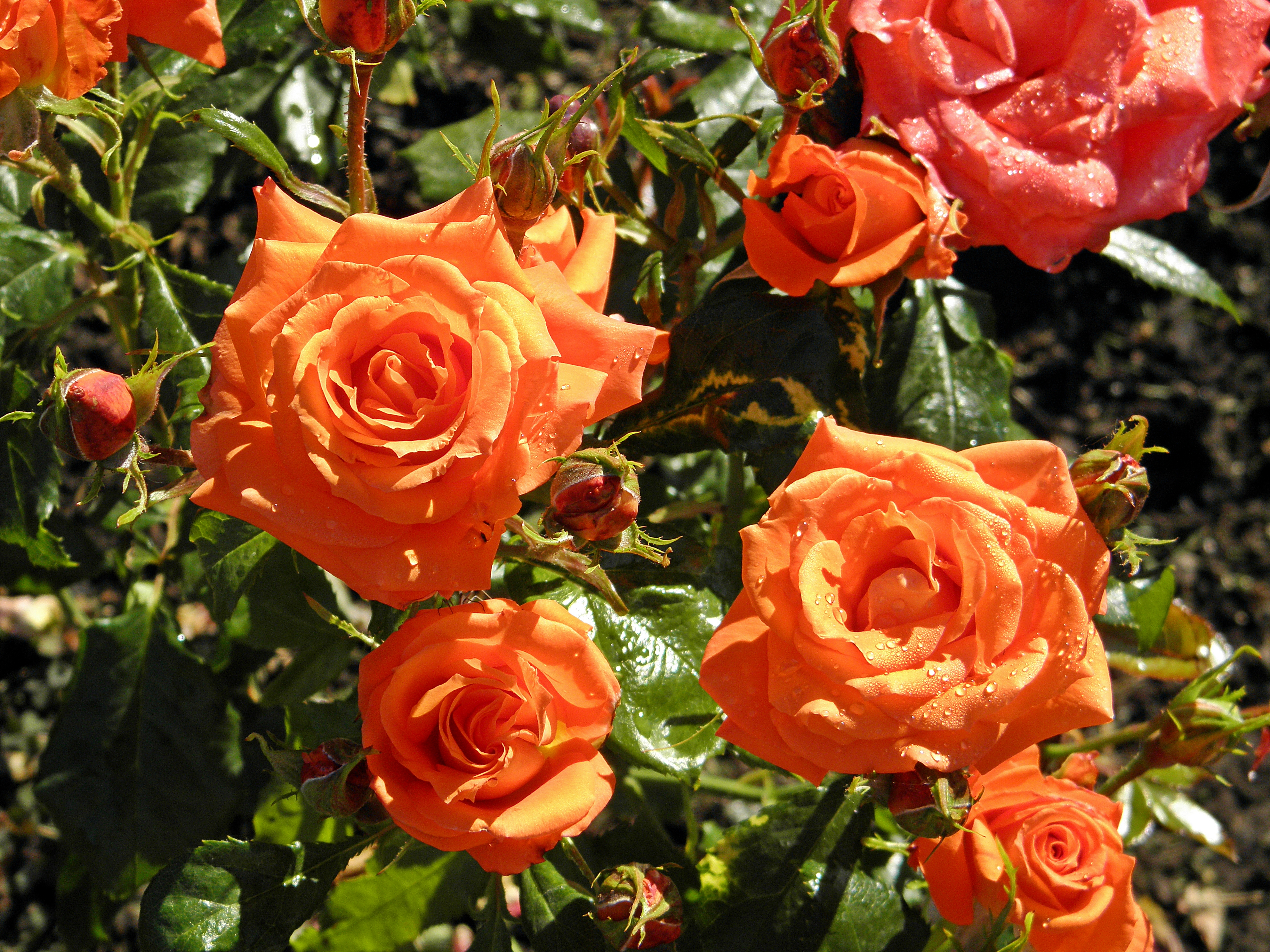 Floribunda Rose 'Marina'; Bush's Pasture Park Rose Garden, Salem, Oregon. 97301